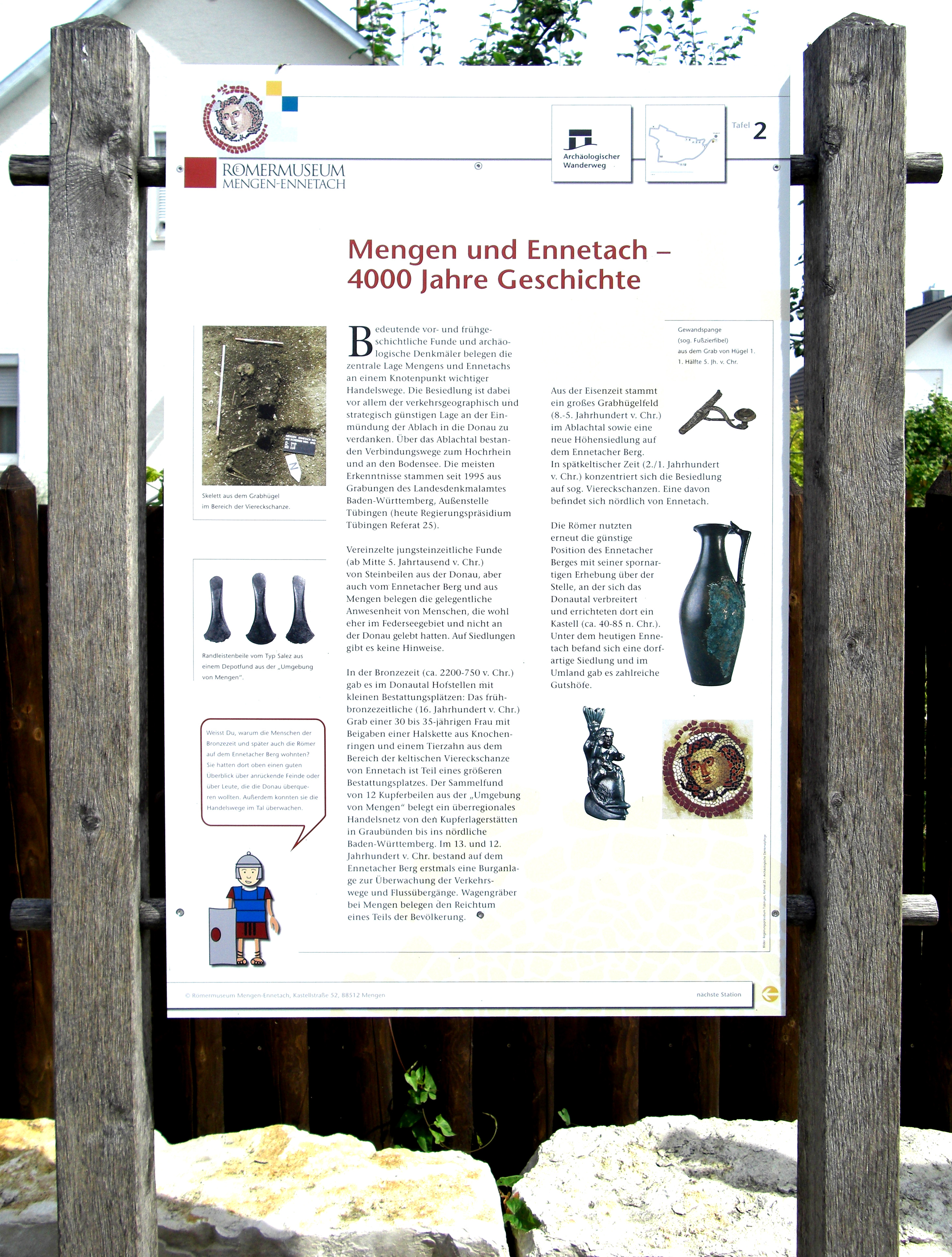 Sign in front of the roman museum in Mengen-Ennetach in Germany.